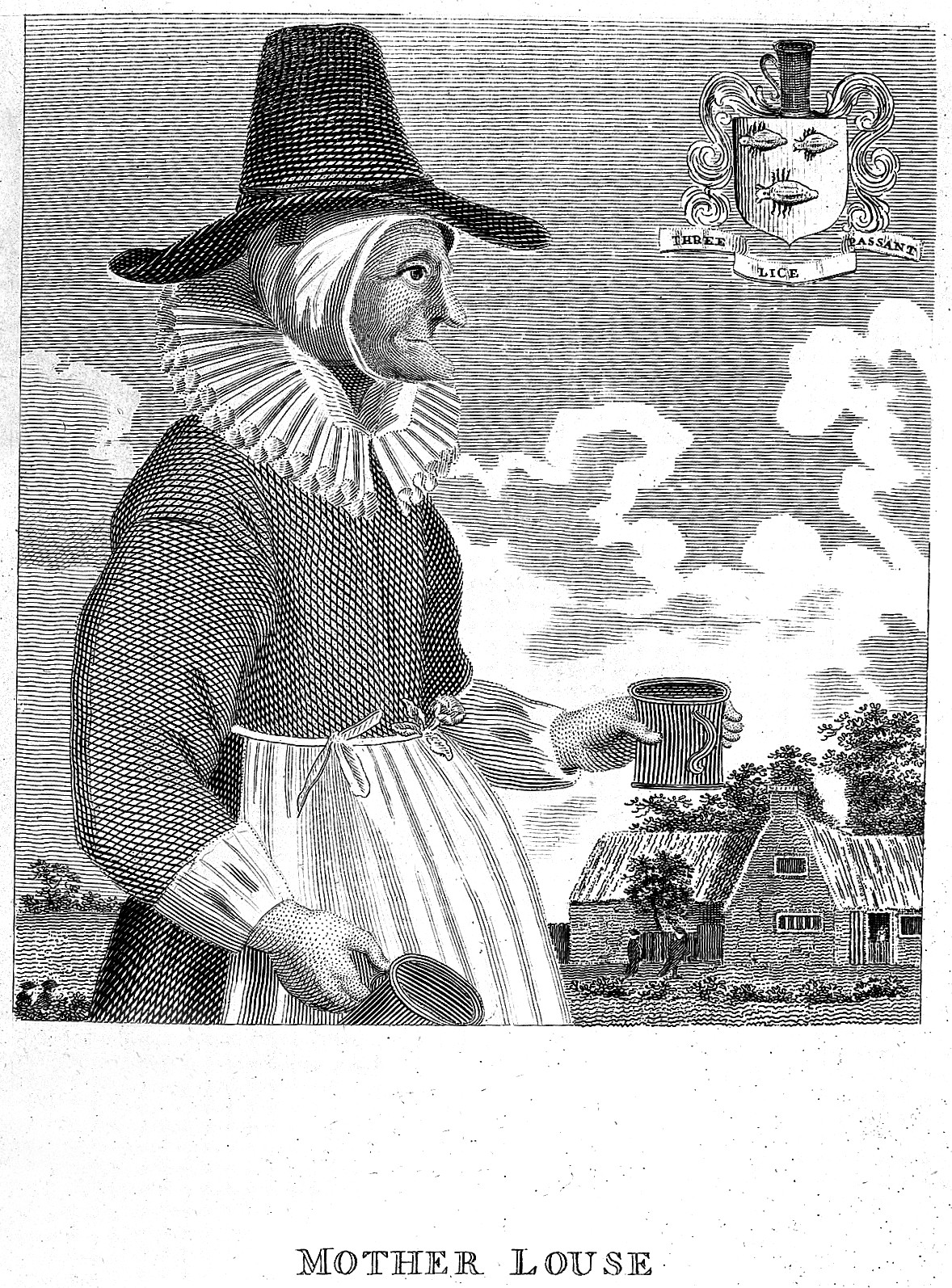 Mother Louse, alewife General Collections Keywords: Mother Louse, Alewife